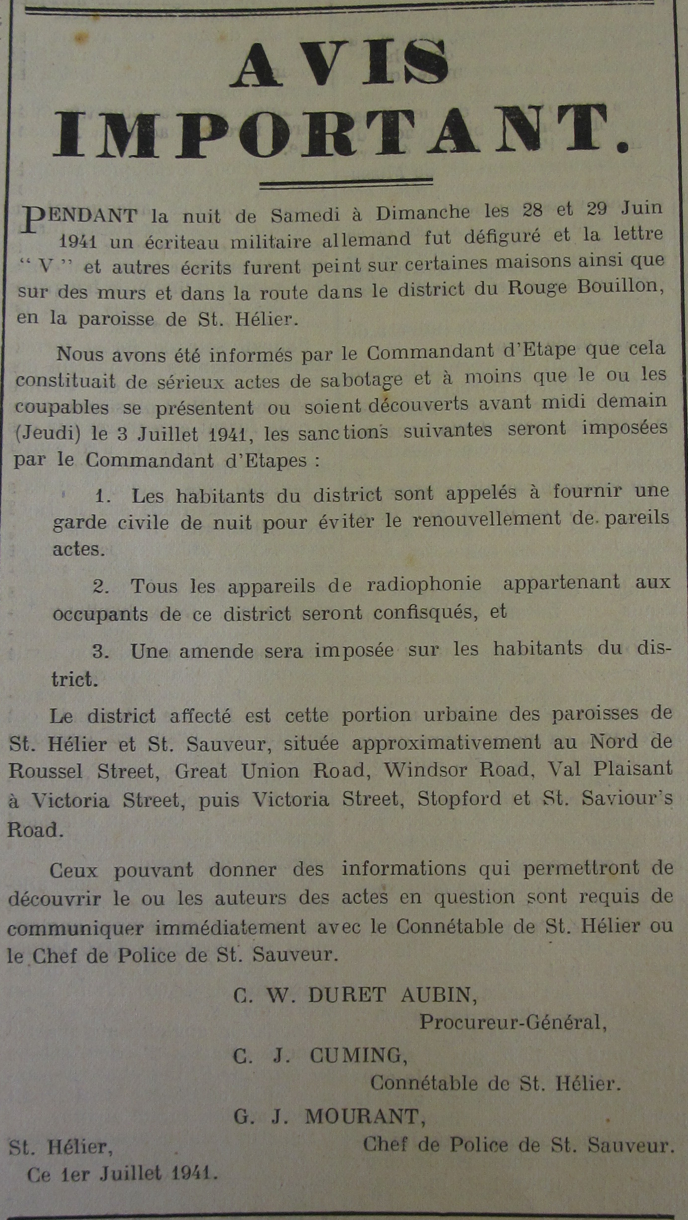 Official notice in Les Chroniques de Jersey, June 1941, warning of measures to be taken against residents of Saint Helier and Saint Saviour, Jersey, in reprisal for a campaign of resistance and painting of v-signs against occupying forces.